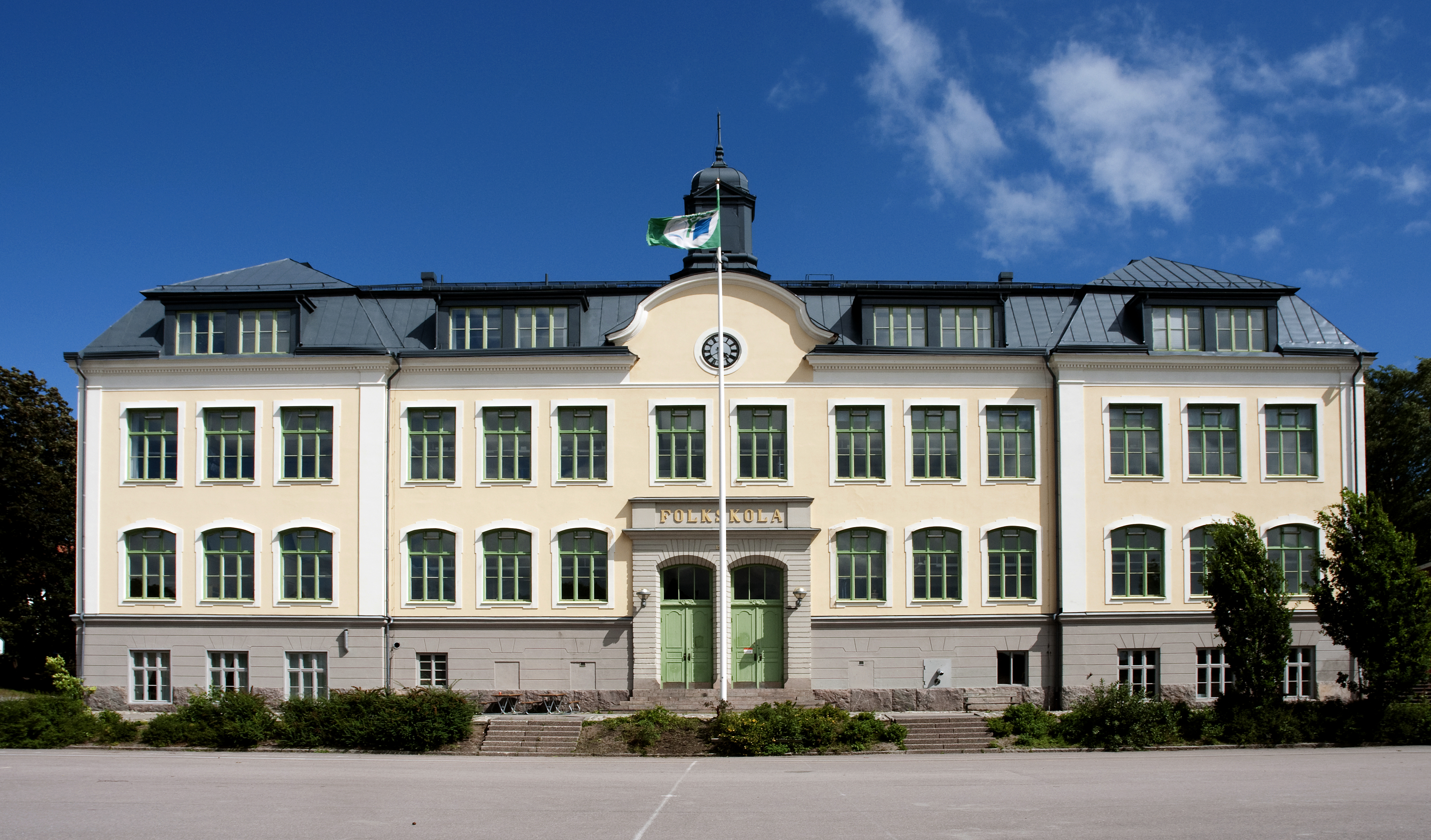 Östra skolan of Nyköping.